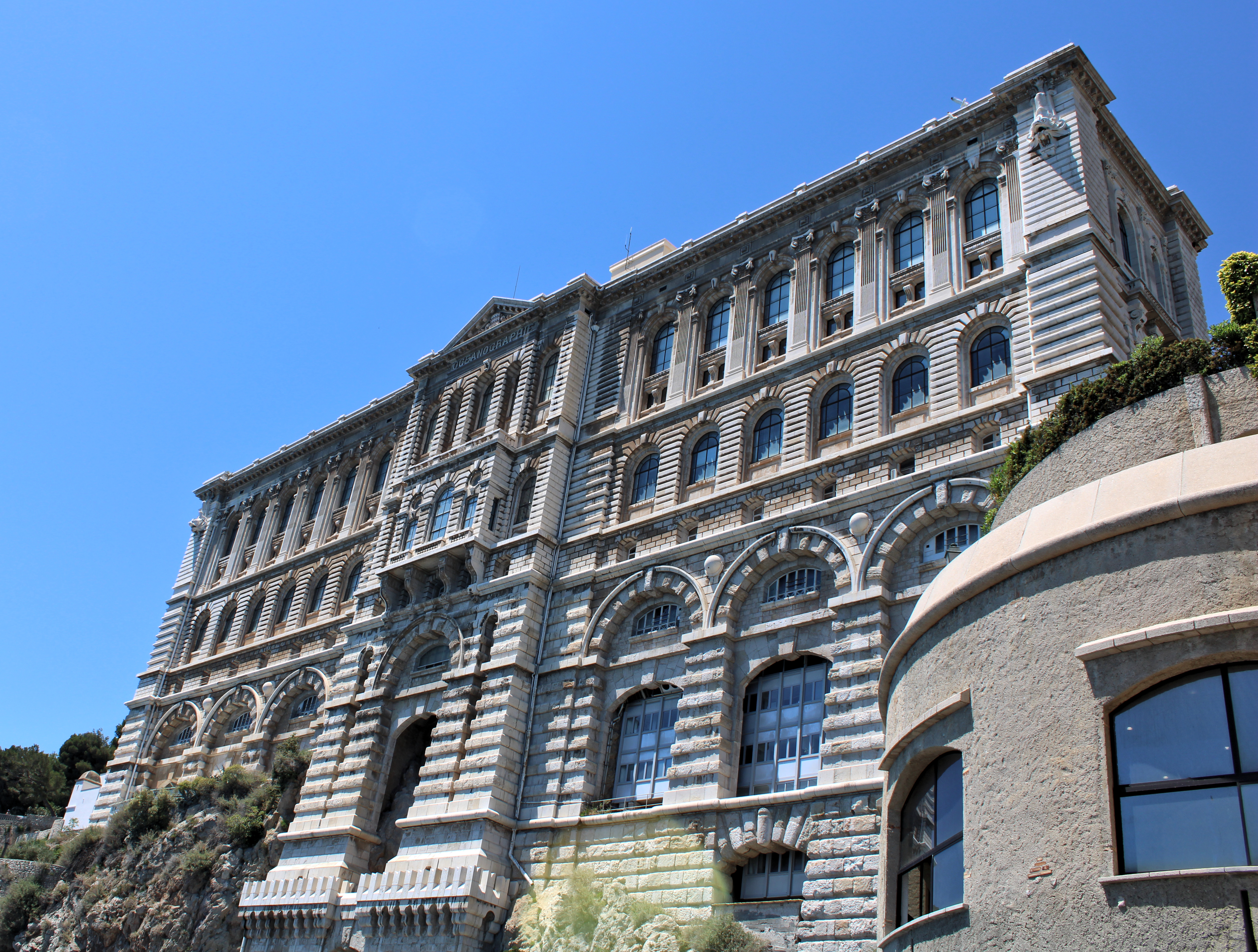 Musée Océanographique de Monaco in Monaco